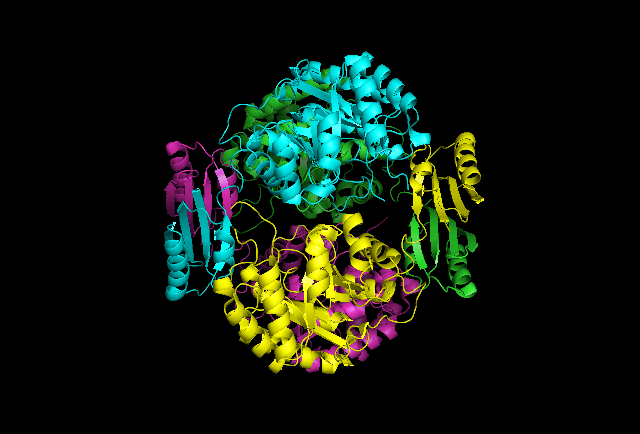 This image shows the quaternary structure of DAHP synthase using a cartoon representation. It was created using PyMol.